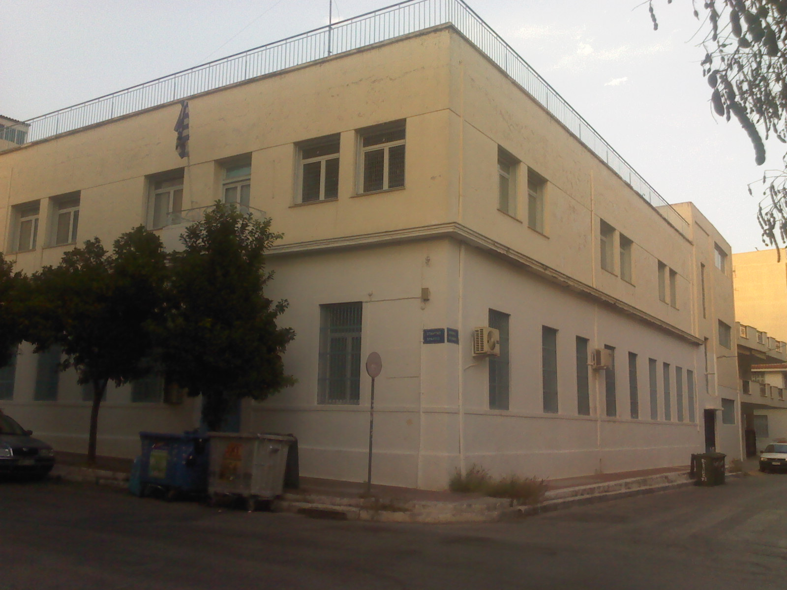 7th High School Pireas